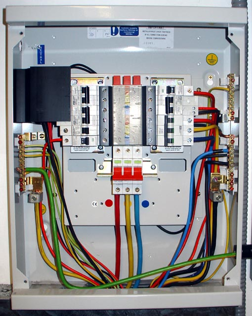 Photo of UK Electrical Distribution Board. Busbars on the left side are neutral above (with cover in place) and earth ground below. Busbars on the right side are earth ground above, with neutral (cover removed for illustration) below. photo taken by me and hereby licensed as follows. 20:28, 17 Nov 2004 (UTC)